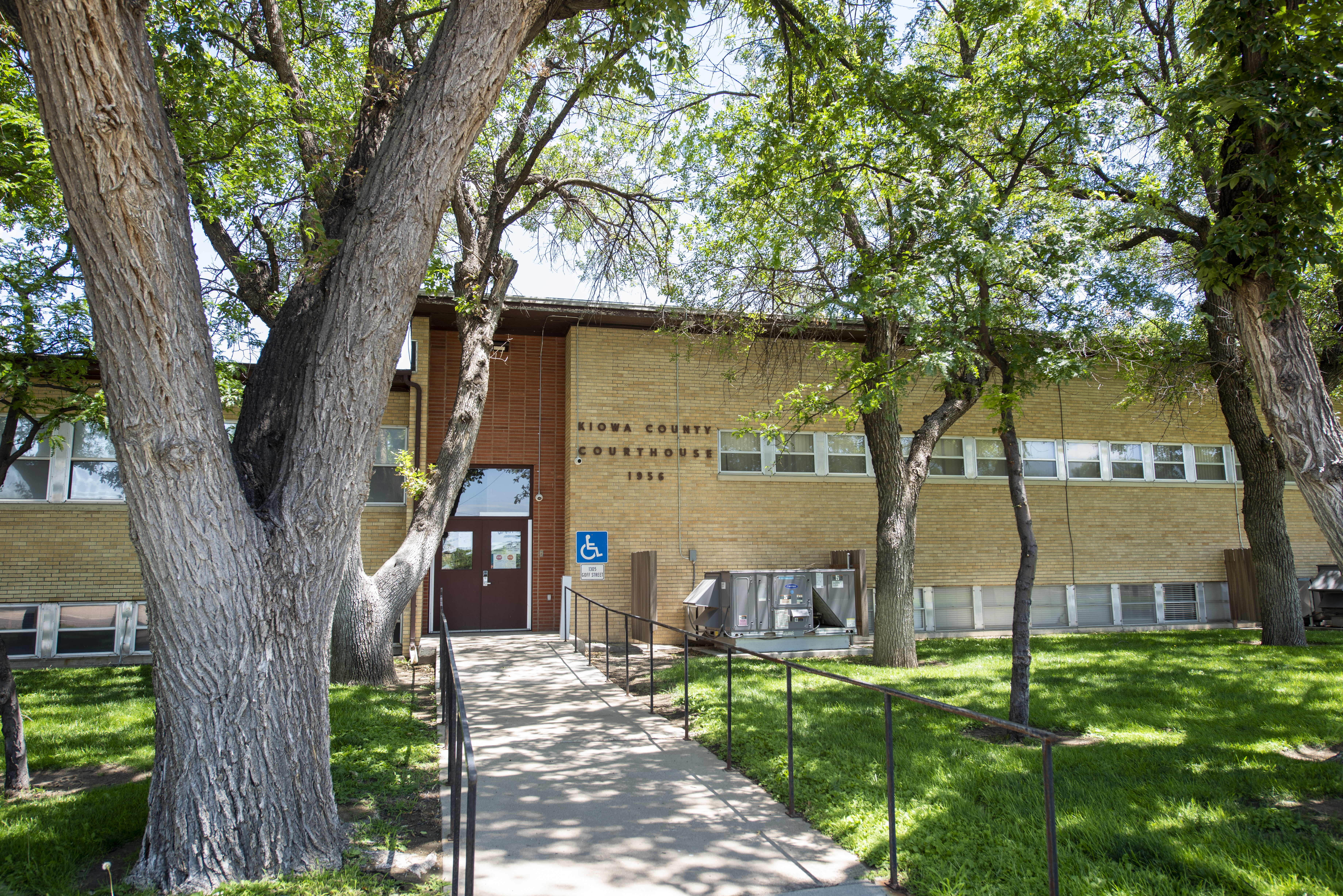 Photograph of the Kiowa County Courthouse in Eads, Colorado. Image taken in July 2020